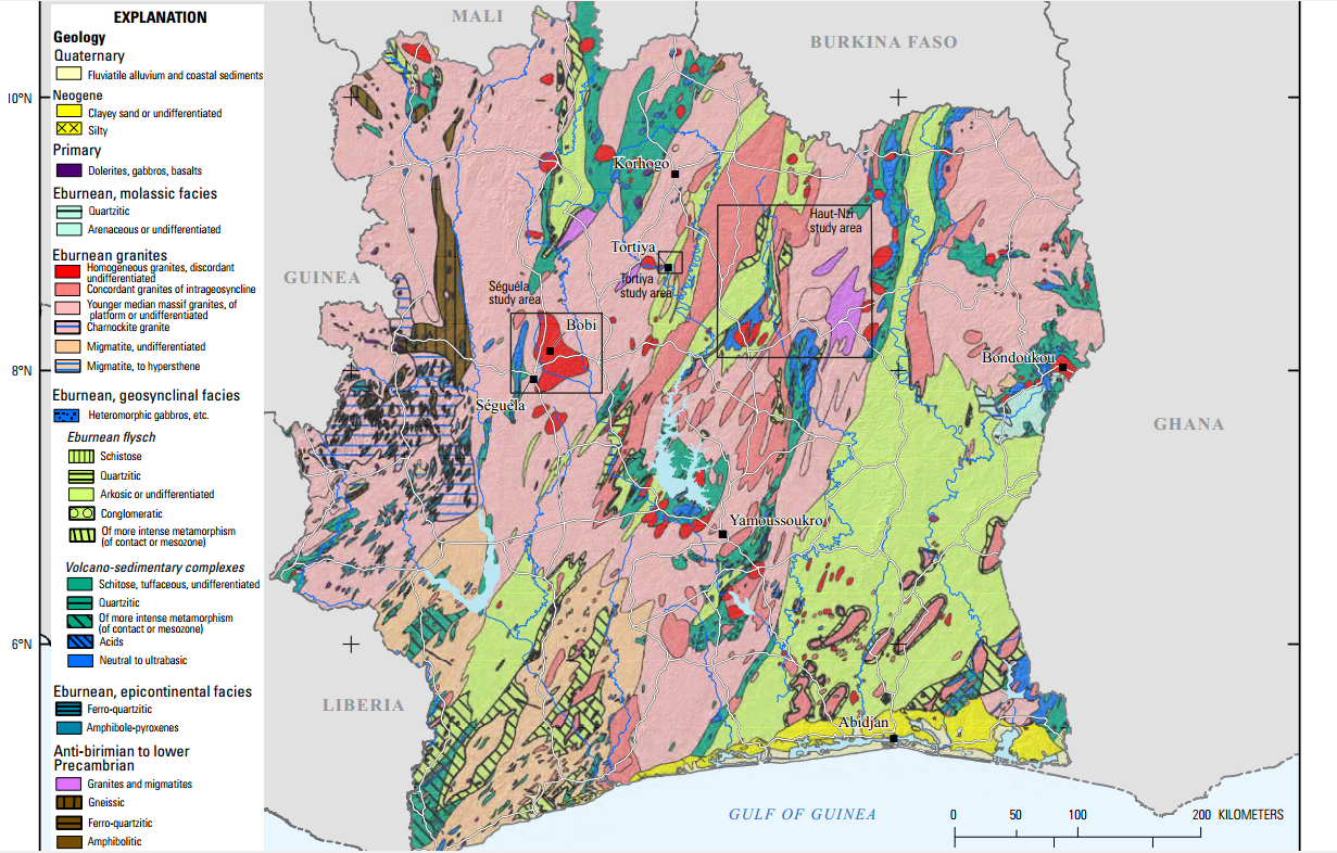 USGS geologic map Ivory Coast